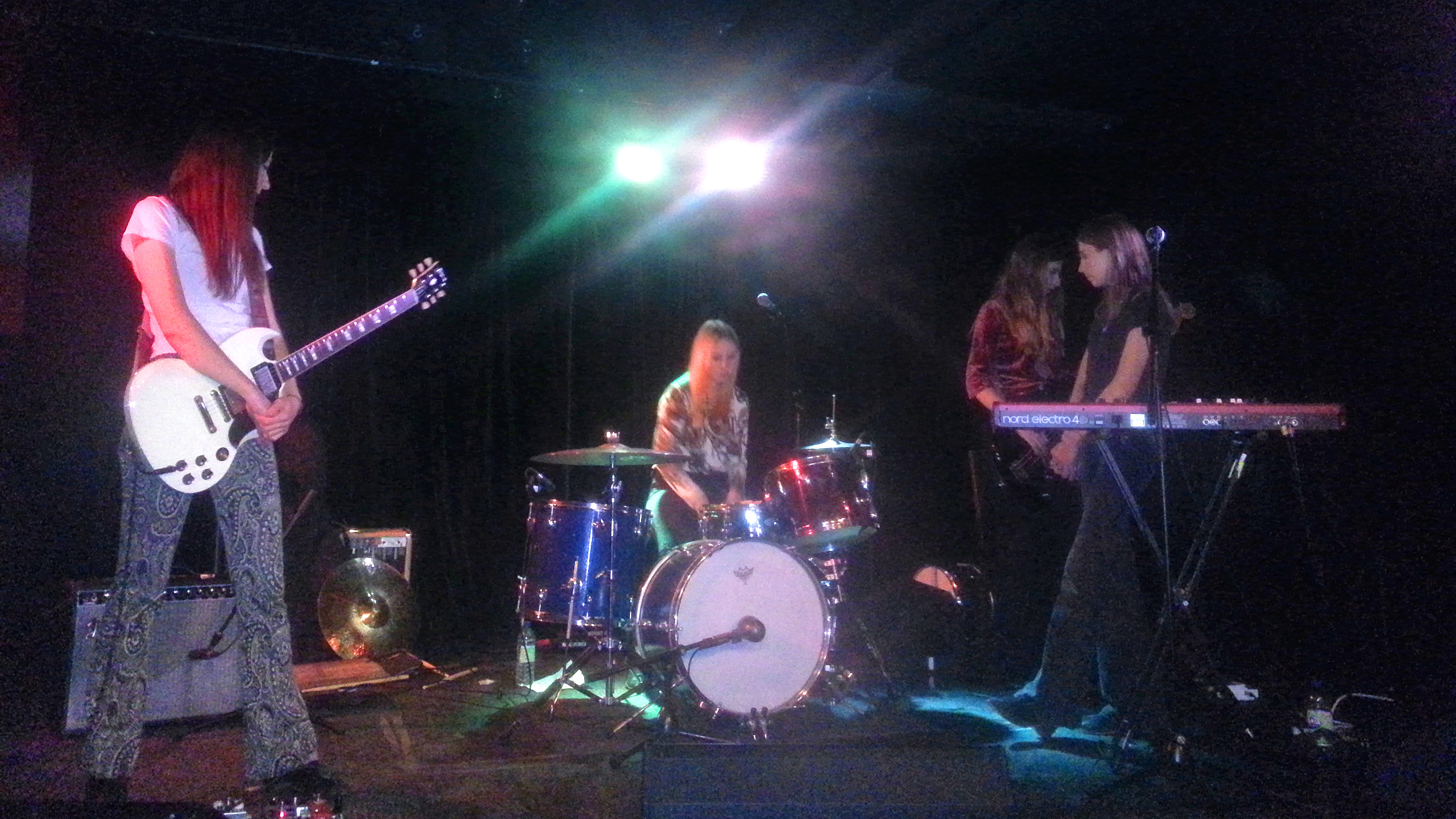 Stonefield photographed in Montreal, Quebec, Canada inside Divan Orange.